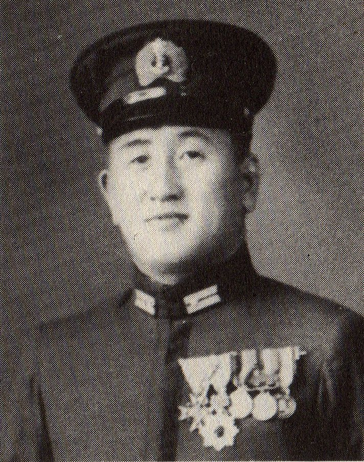 Uno Kameo is an Imperial Japanese Navy Captain